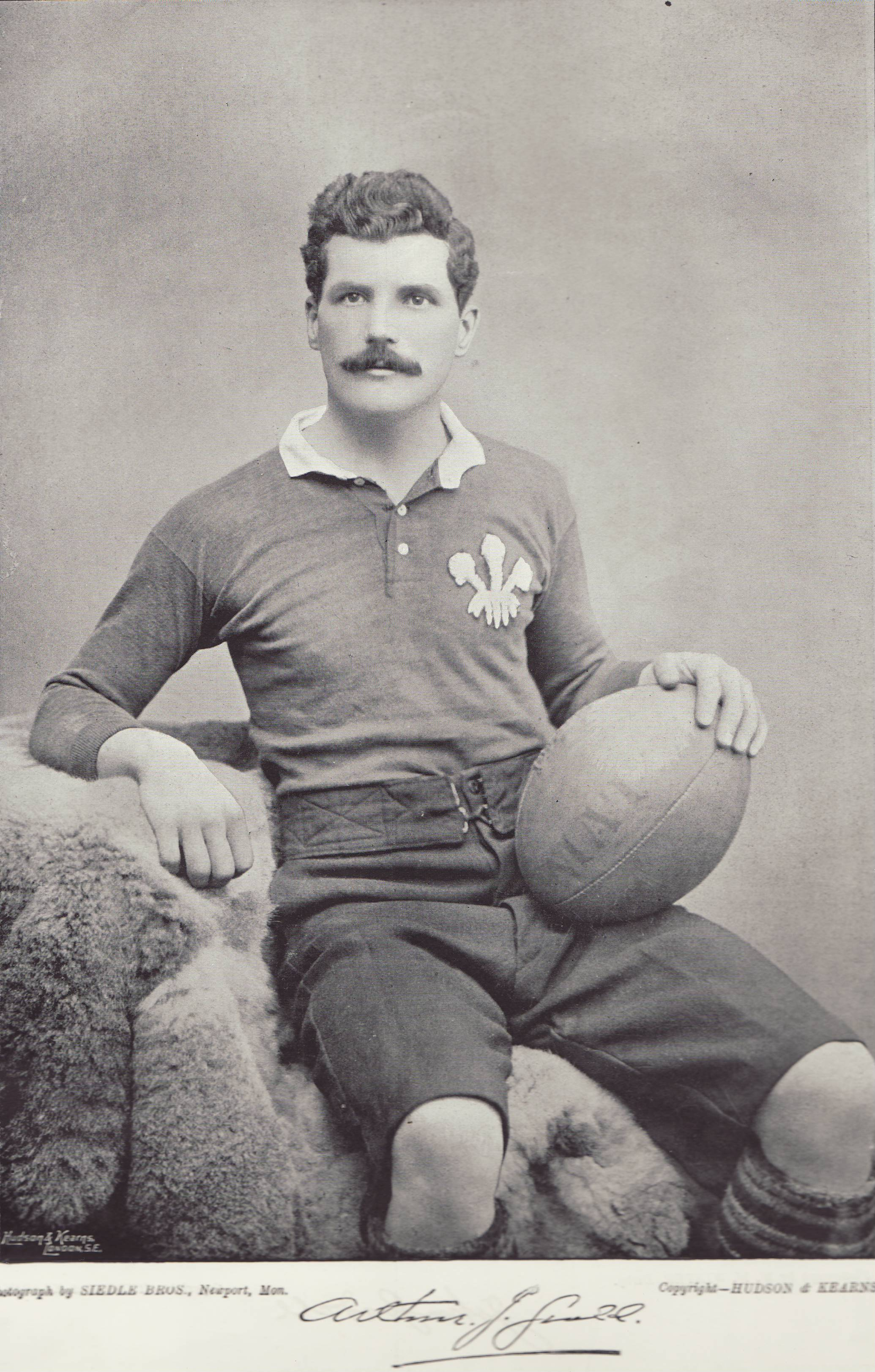 Arthur 'Monkey' Gould, Wales captain and Newport RFC rugby union player